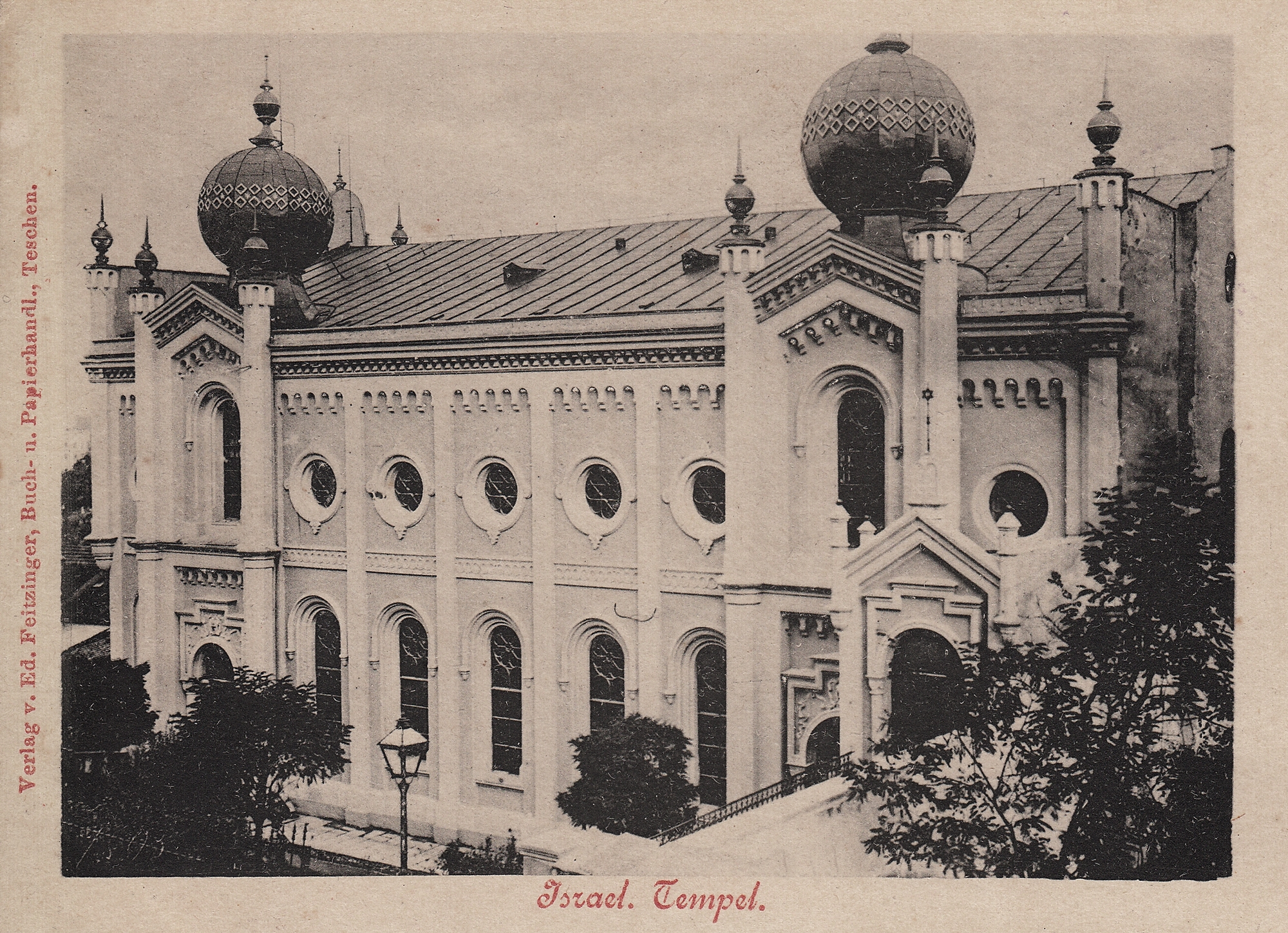 Synagogue in Cieszyn